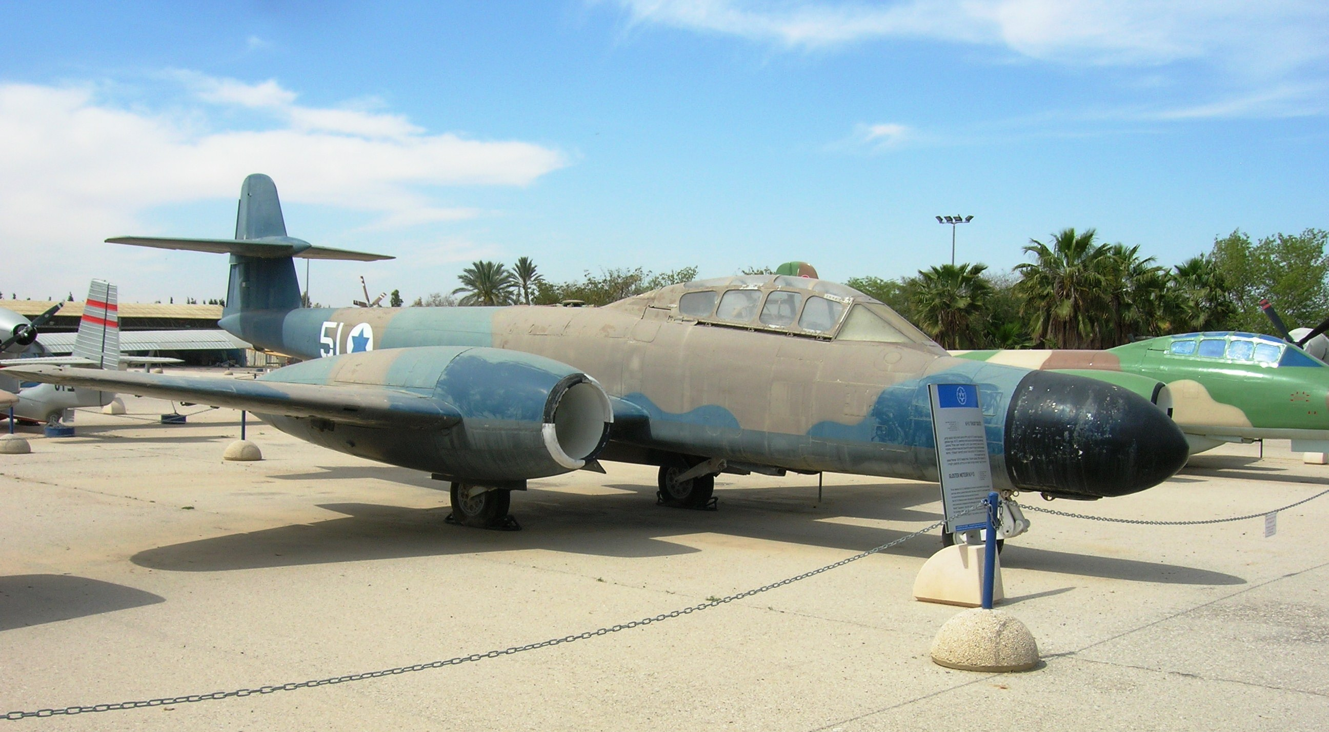 First British jet fighter Gloster Meteor